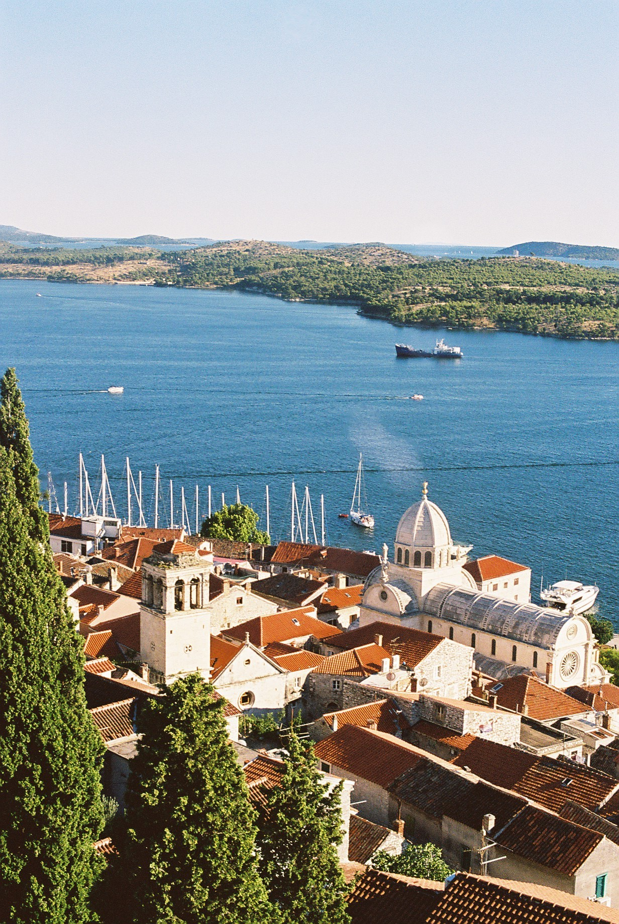 Šibenik, Croatia Author: User:Tieum512